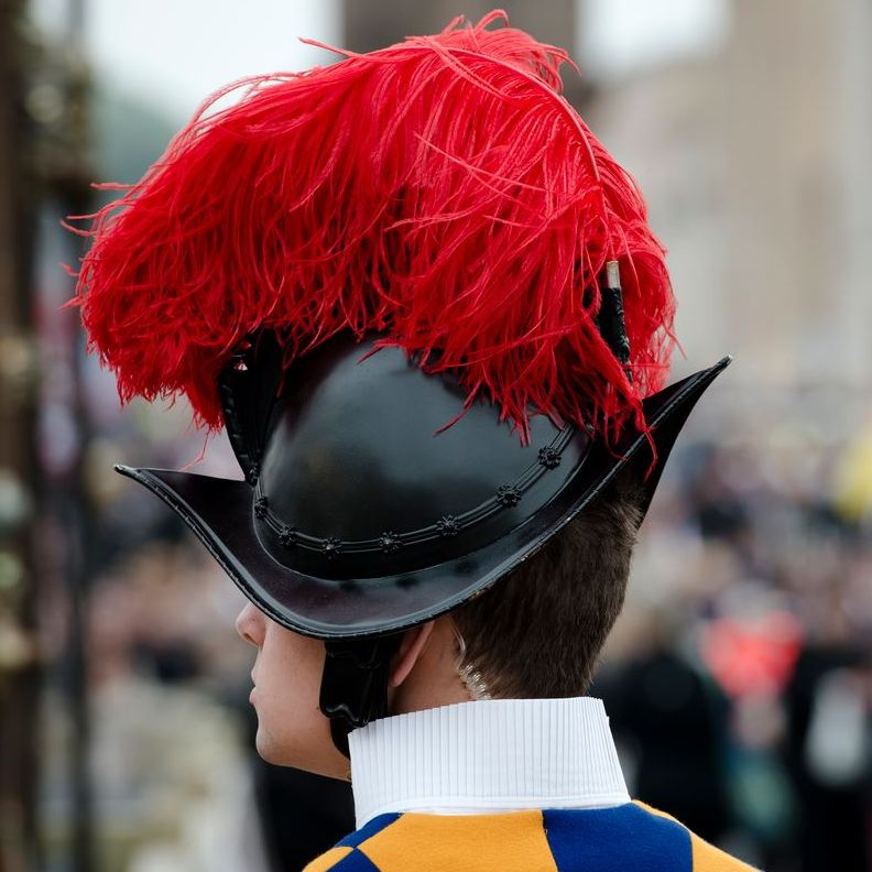 Helmet (Morion) of the papal Swiss Guardsman. Cropped Version of Canonization_2014-The_Canonization_of_Saint_John_XXIII_and_Saint_John_Paul_II_(14037664014).jpg